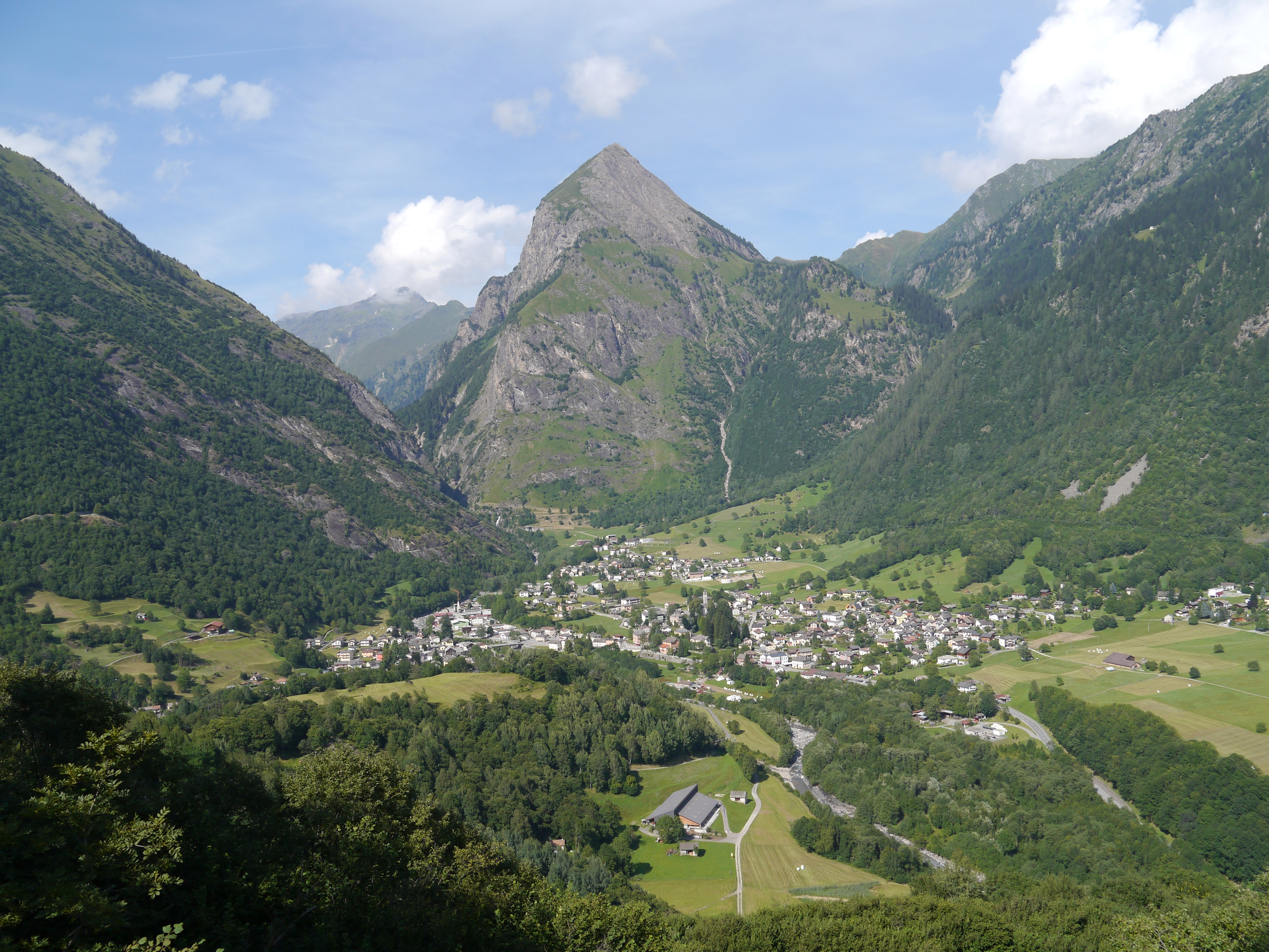 Olivone, Lukmanier Pass, Canton of Ticino, Switzerland